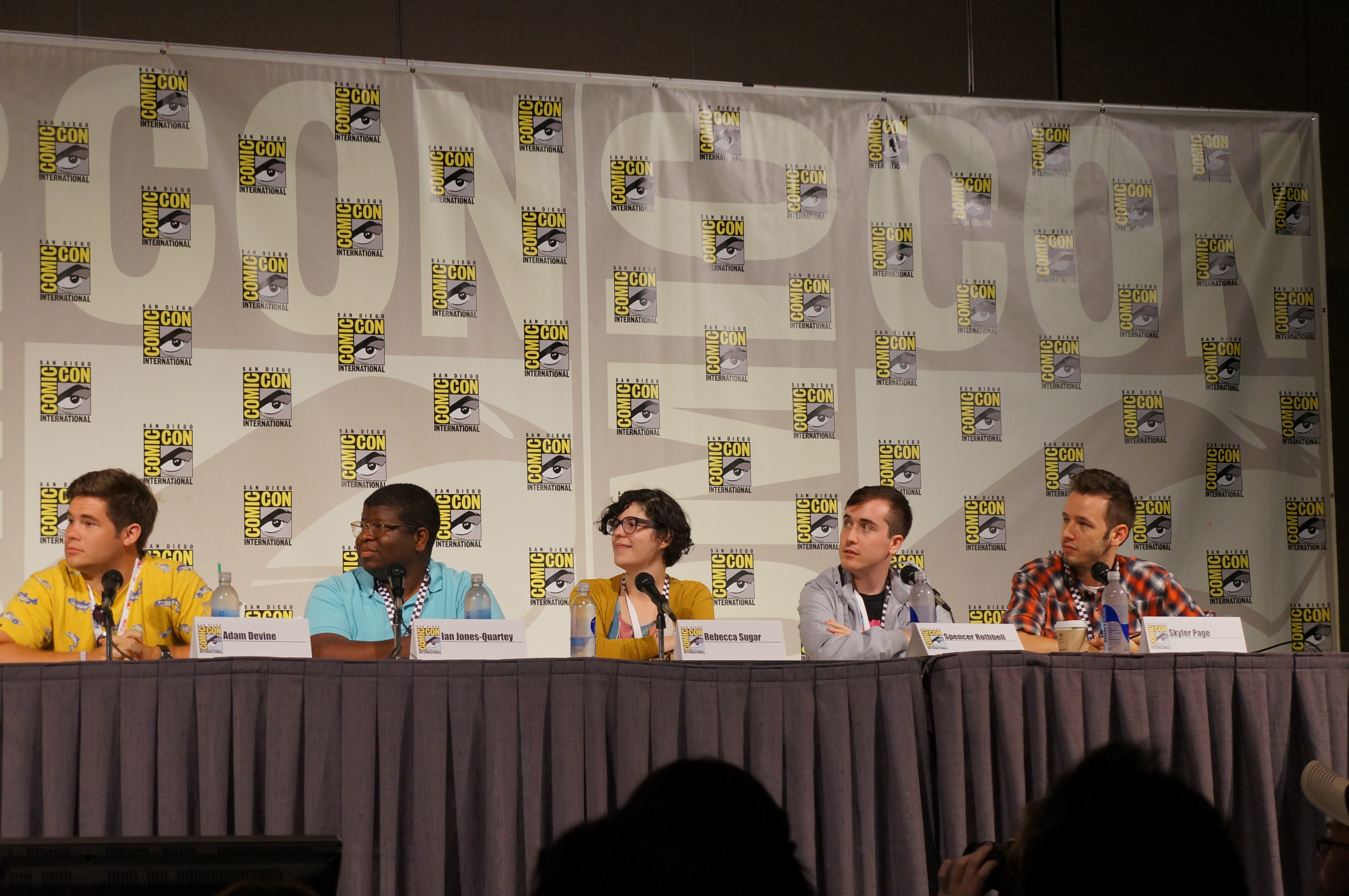 Cartoon Network Panel with Adam Devine, Ian Jones- Quartey, Rebecca Sugar, Skylar Page